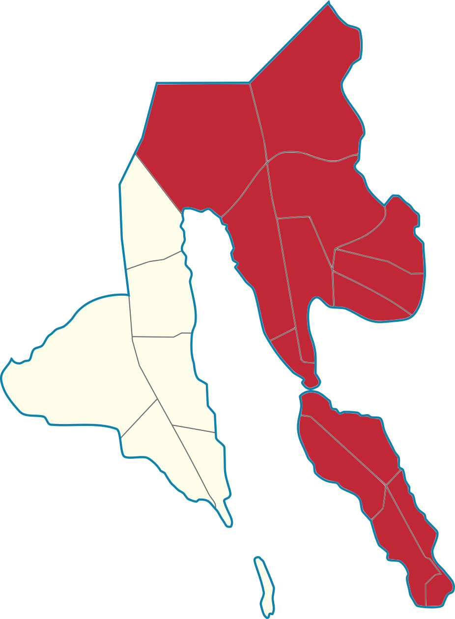 Second Legislative District of Southern Leyte, for representation in the Sangguniang Panlalawigan. (Southern Leyte only has one Congressional District.)